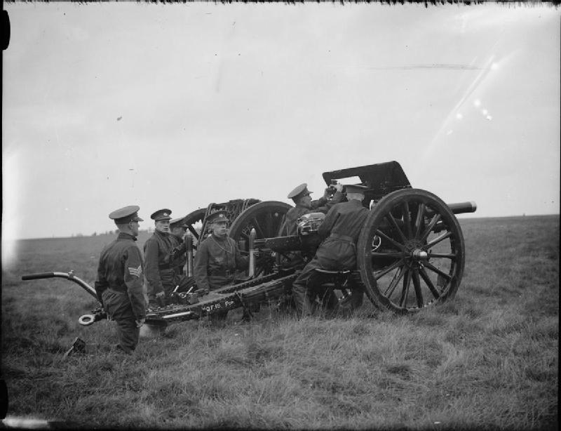 The British Army in the United Kingdom 1939-45 18-pdr field guns in action during training exercises at the School of Artillery at Larkhill, May 1940.